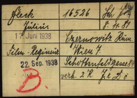 Registration card of Jacob Fleck as a prisoner at Dachau Nazi Concentration Camp. The red “B.” penciled on the left indicates Fleck's transfer back to Buchenwald.